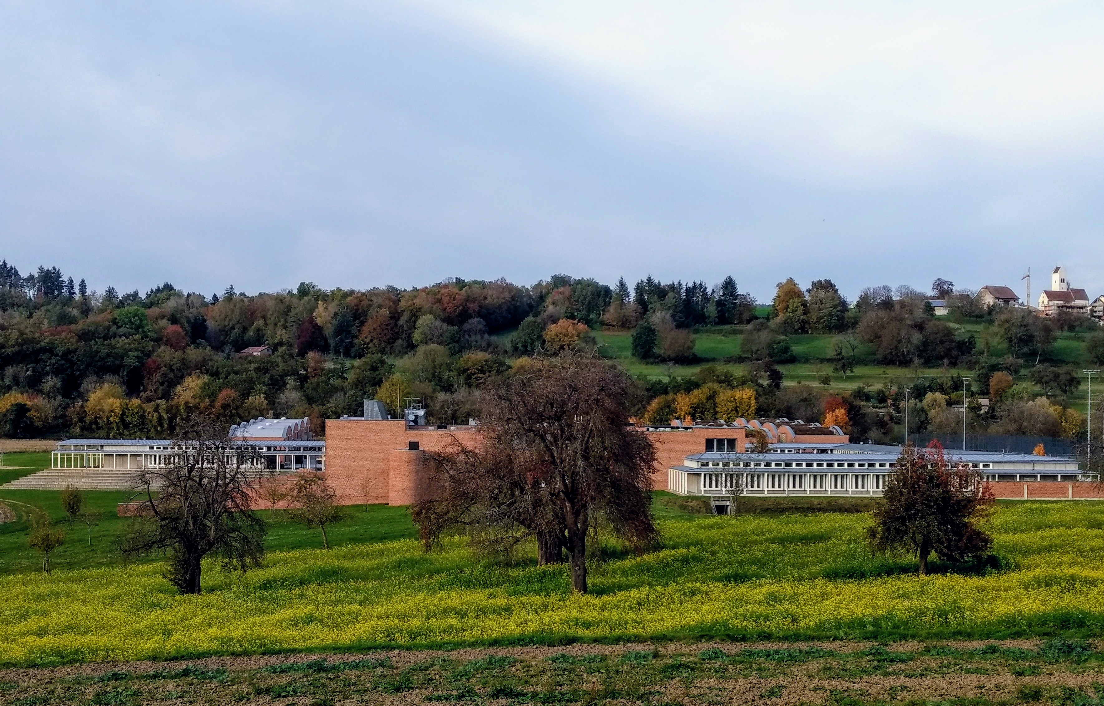 Main building and classrooms of Salem Kolleg and Salem International College